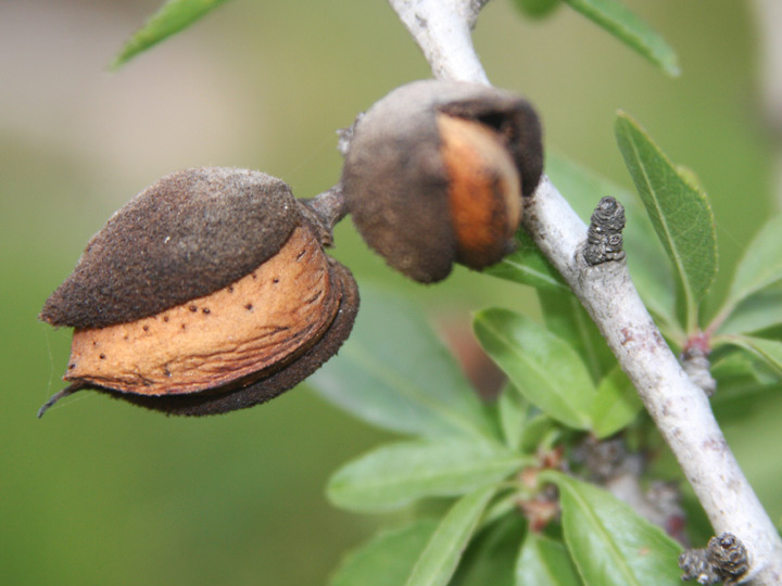 Amond blossom, Plants of Israel